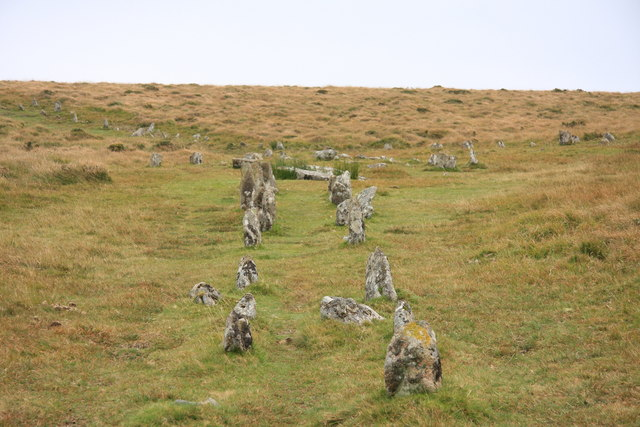 Shovel Down Stone Row Looking up to the Fourfold Circle cairn at the head of the double row. Another double row can be seen running at an angle across the hillside.